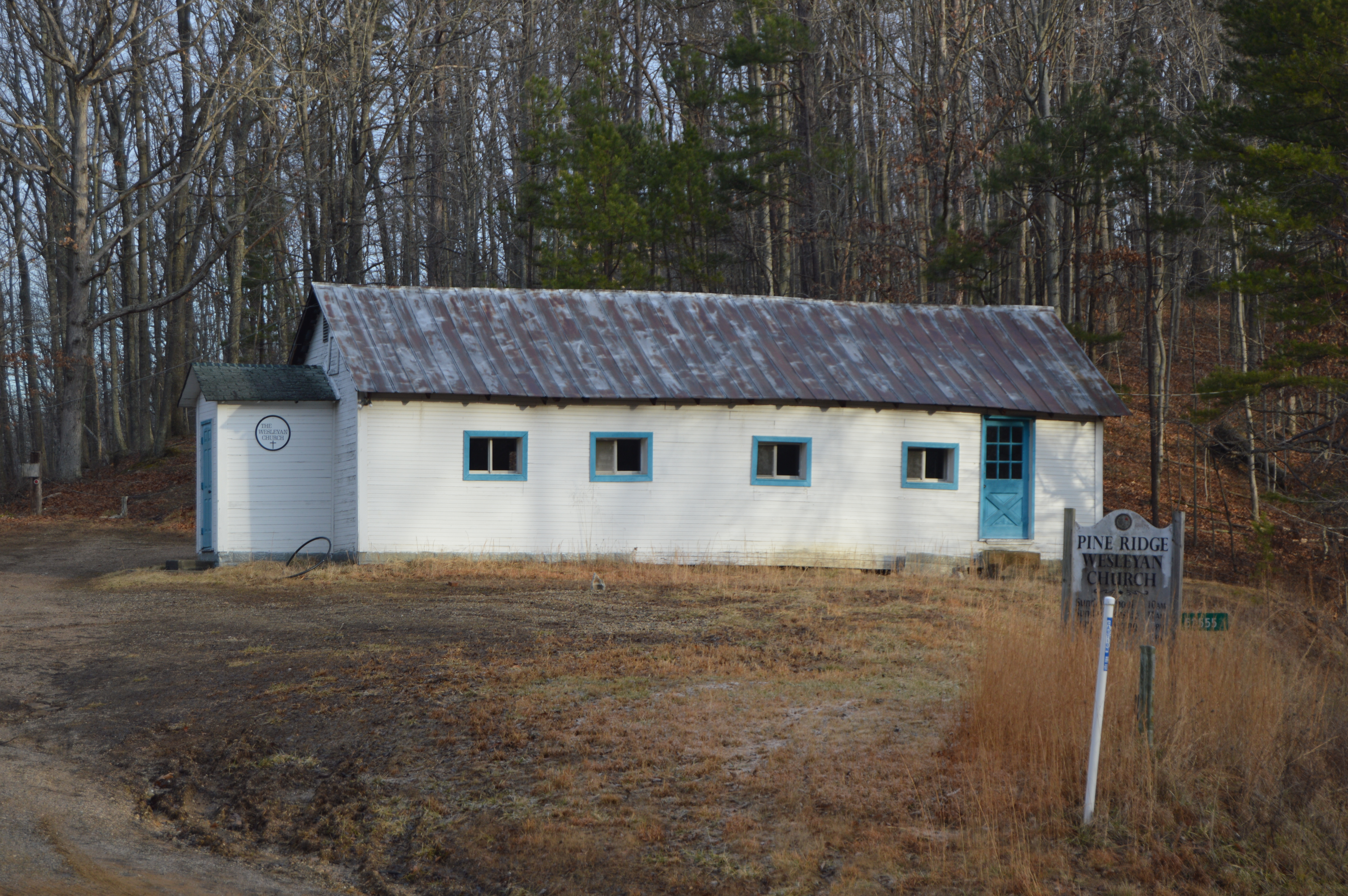 Southern side of Pine Ridge Wesleyan Church, located on State Route 671 in northern Harrison Township, Vinton County, Ohio, United States.